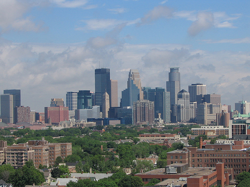 A view of downtown Minneapolis, Minnesota